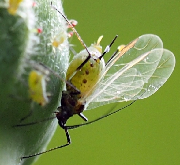 Macrosiphum rosae (alate i.e. winged form) on a rose bud